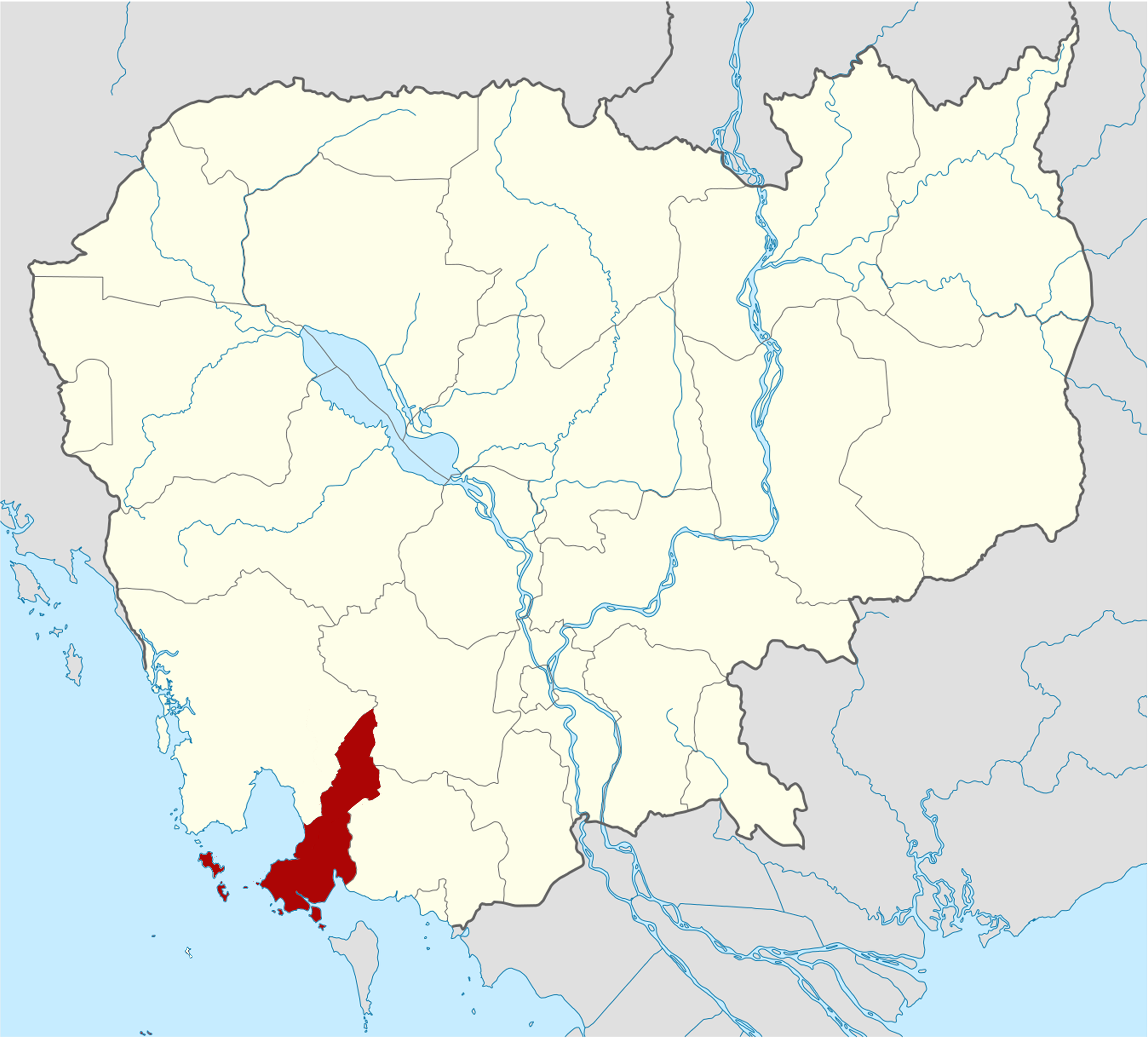 updated map of Cambodia, highlighting Sihanoukville Province, 2014